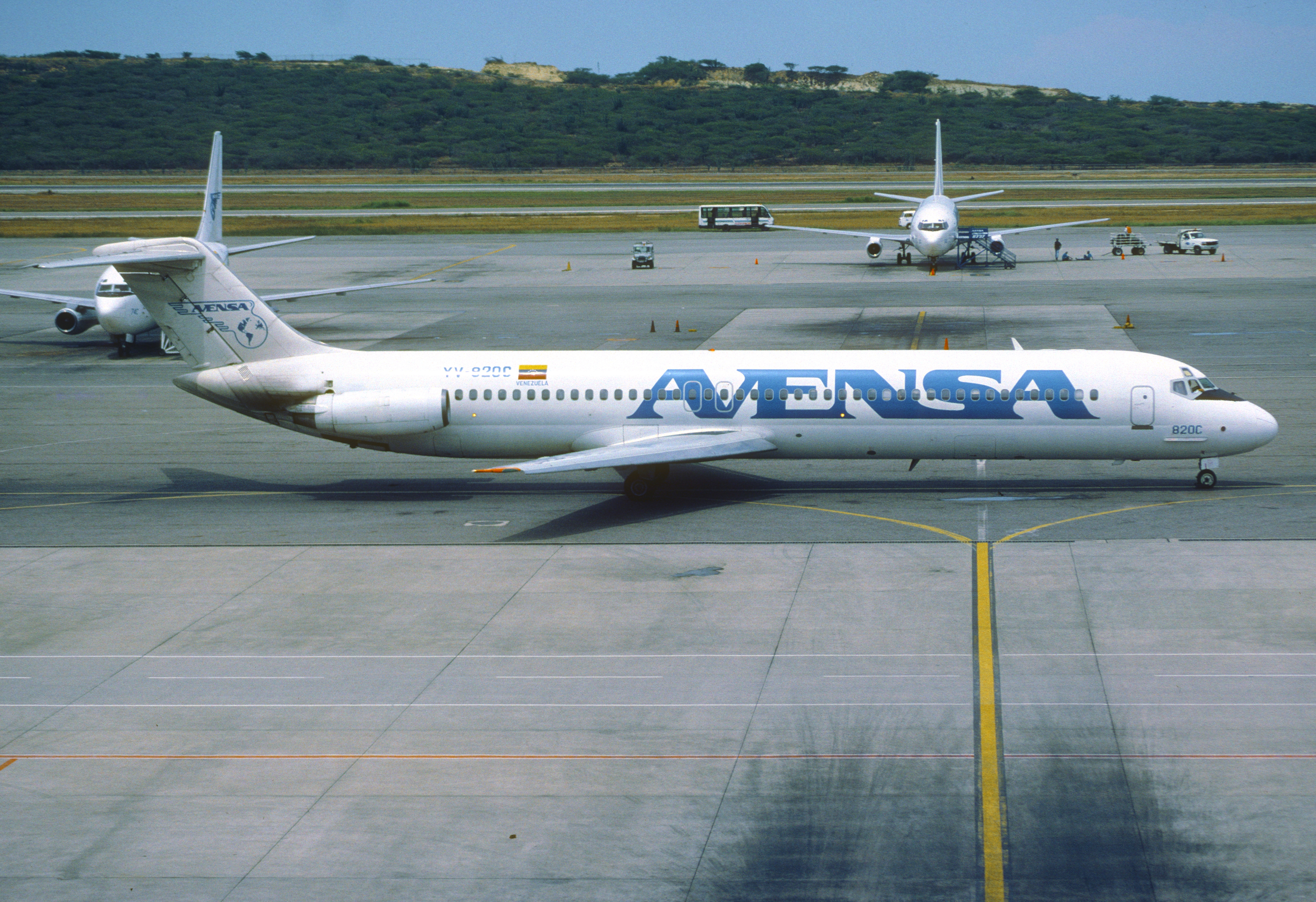 The DC-9 that flew us from Porlamar to Caracas that day...